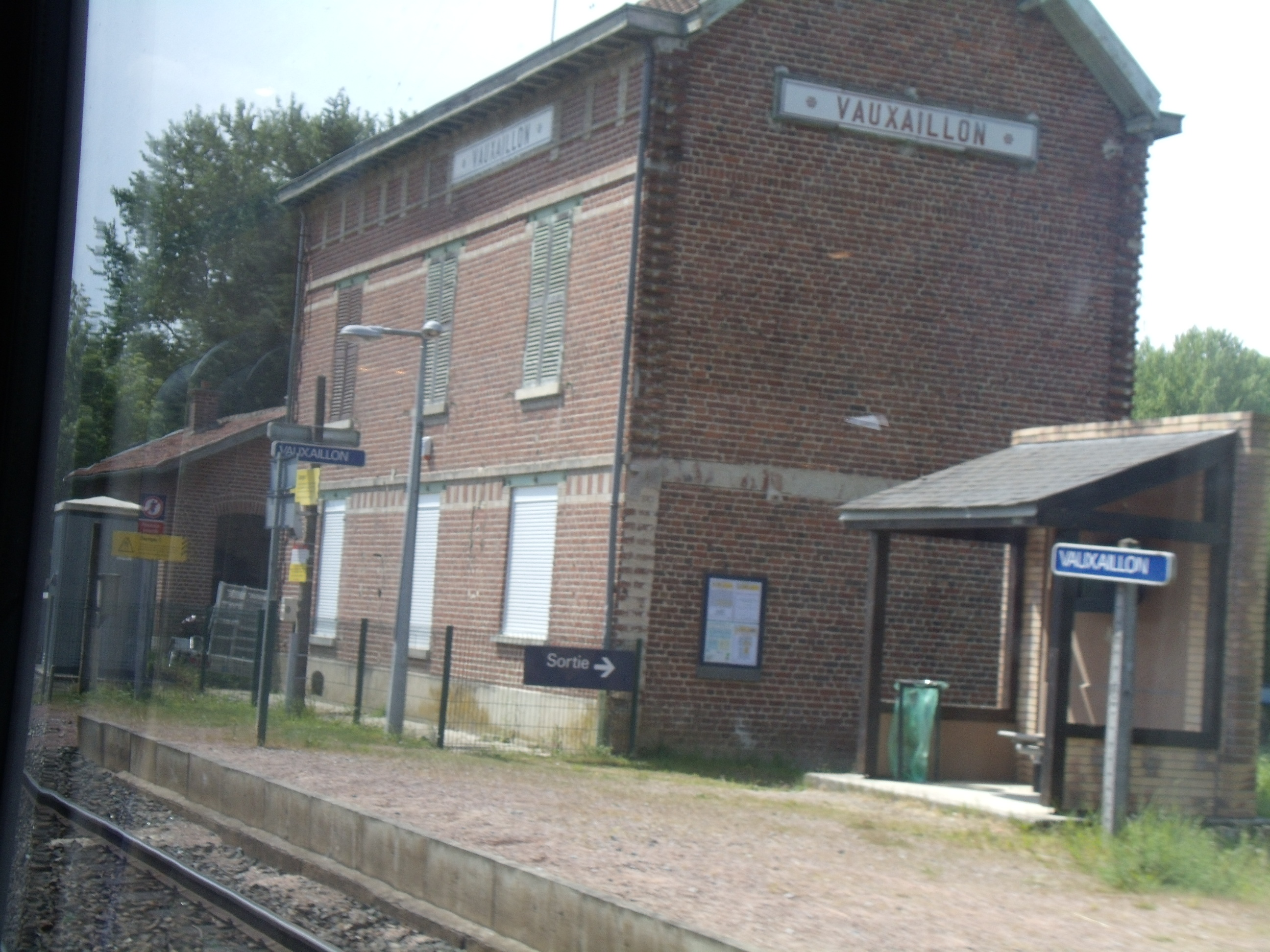 Vauxaillon station from the train